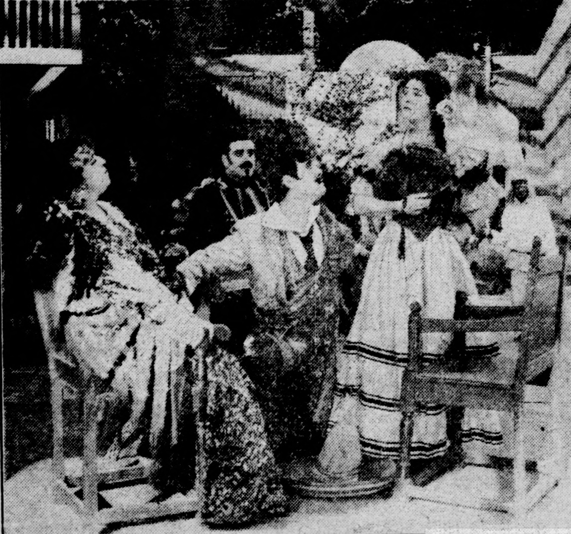 Rose of the Rancho is a 1914 American Western film directed by Cecil B. DeMille. Scene from the film published in a newspaper.